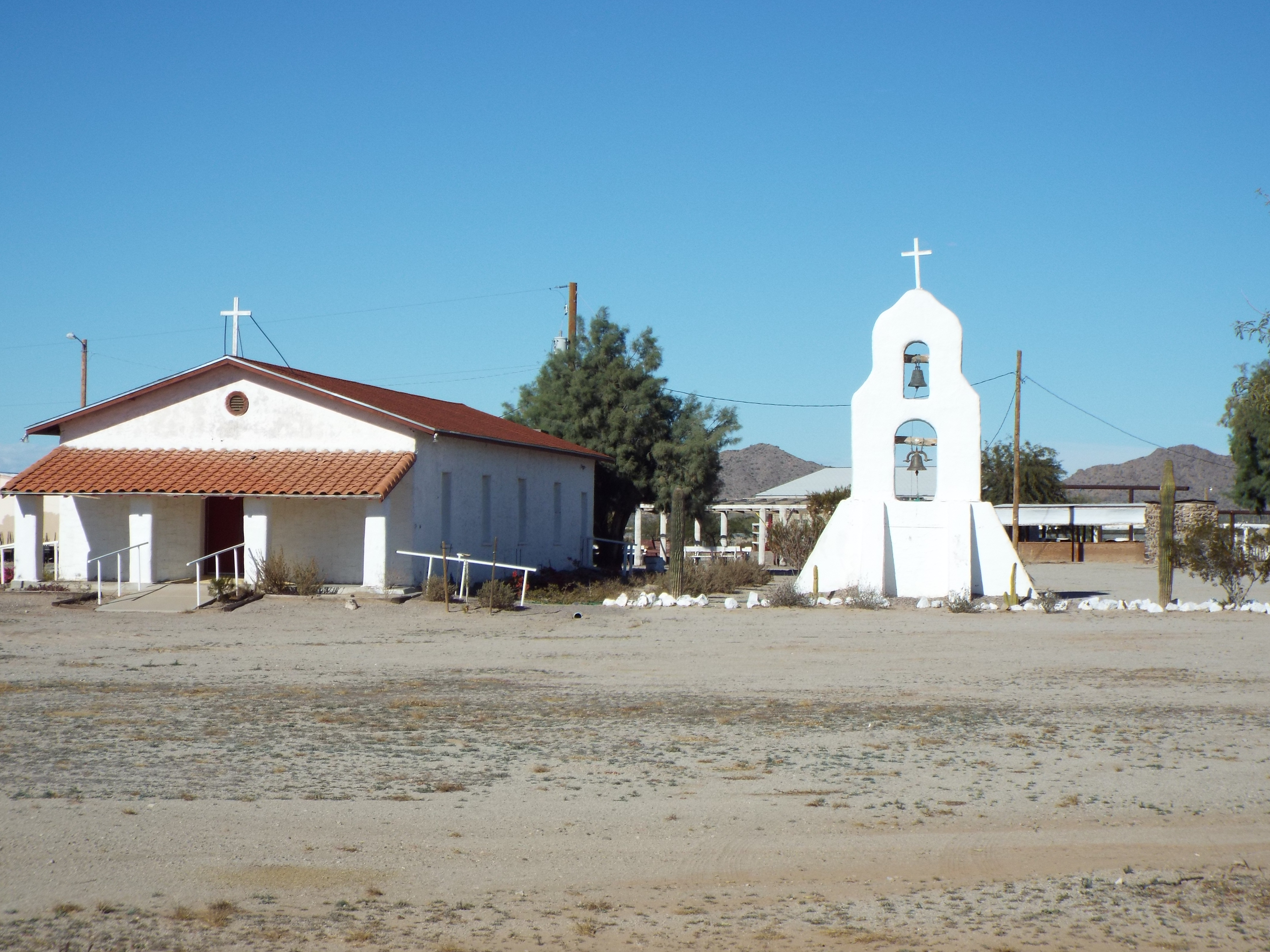 Saint Anne Catholic Church Mission in Pinal County was established in 1900 and is located on Hwy 80 Santan, Az